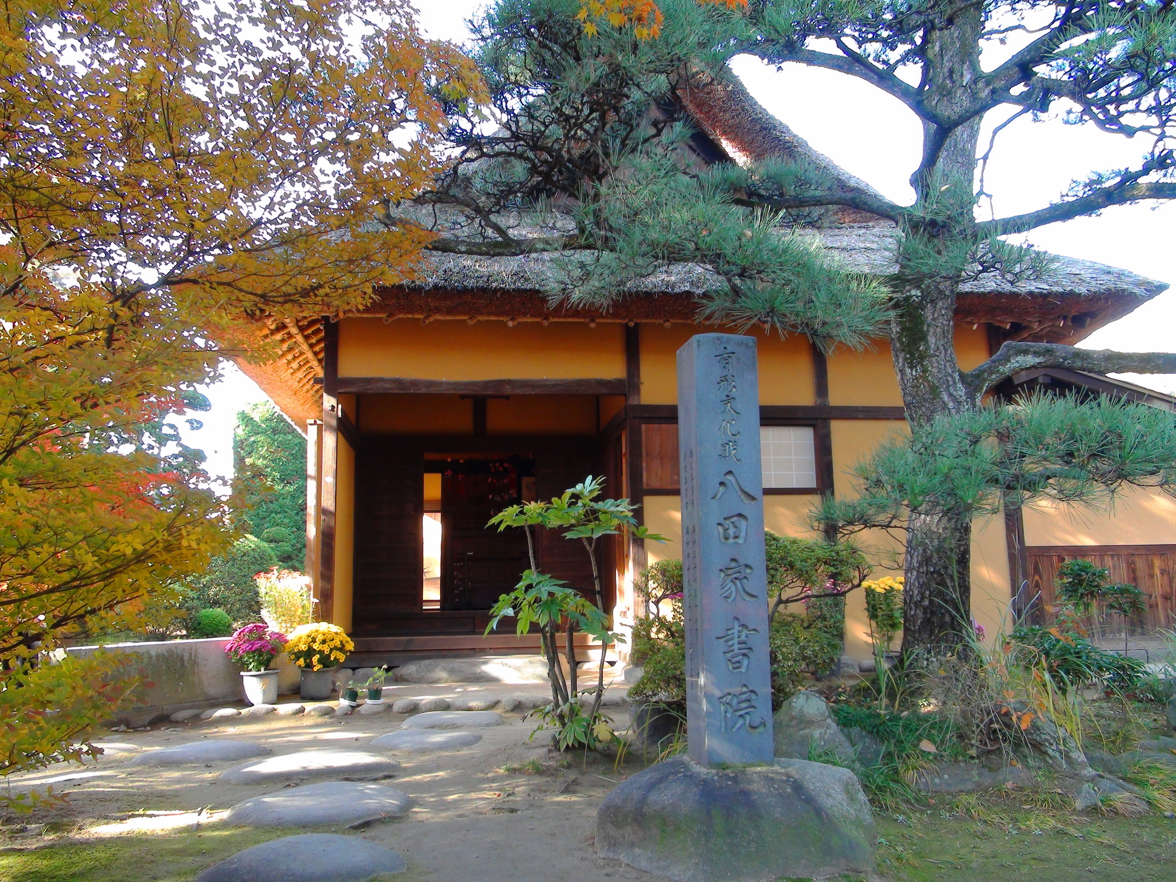 Hattake-Shoin entrance In classic library style building